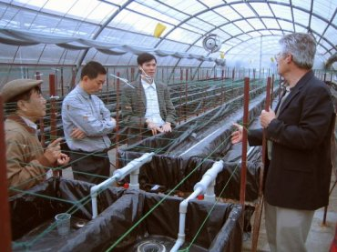 5,000 sq meter aeroponic greenhouse located in Hanoi Vietnam